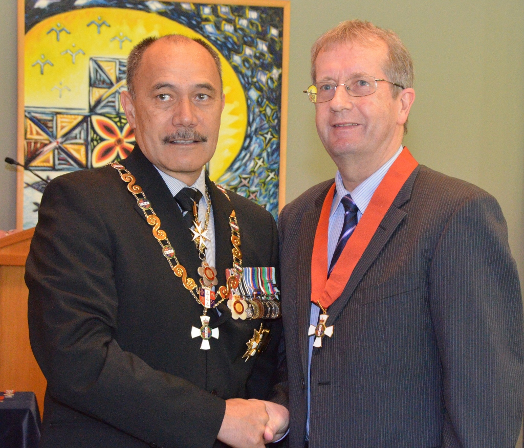 Roy Crawford (right), after his investiture as CNZM, for services to tertiary education, by the governor-general, Sir Jerry Mateparae, on 26 August 2015